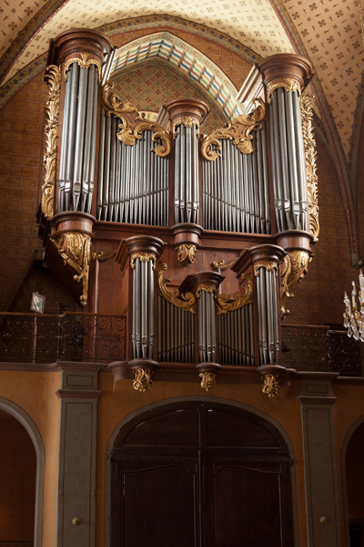 Cathédrale Saint-Jean-Baptiste; Aire sur l'Adour, Landes, Aquitaine, France; ; ; Photographer: Paul M.R. Maeyaert; © Paul M.R. Maeyaert; ; Cultural heritage/Cathedral; Cultural heritage/Organ music; Europe/France/Aire sur l'Adour